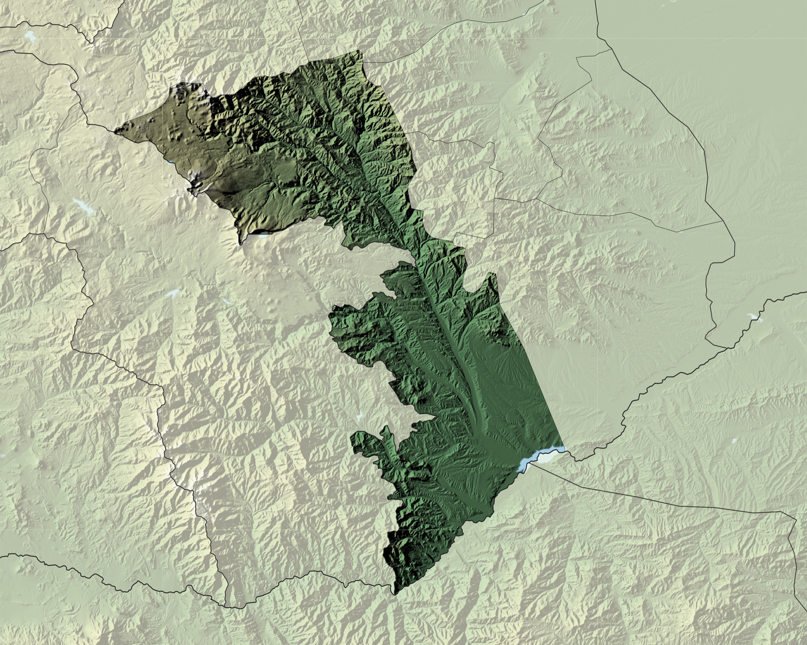 Hillshaded map of Kashatagh region of Artsakh Republic